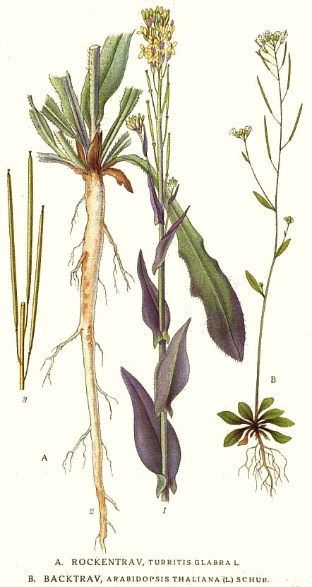 Original Description A. Rockentrav, Turritis glabra L. B. Backtrav, Arabidopsis thaliana (L.) Schur.